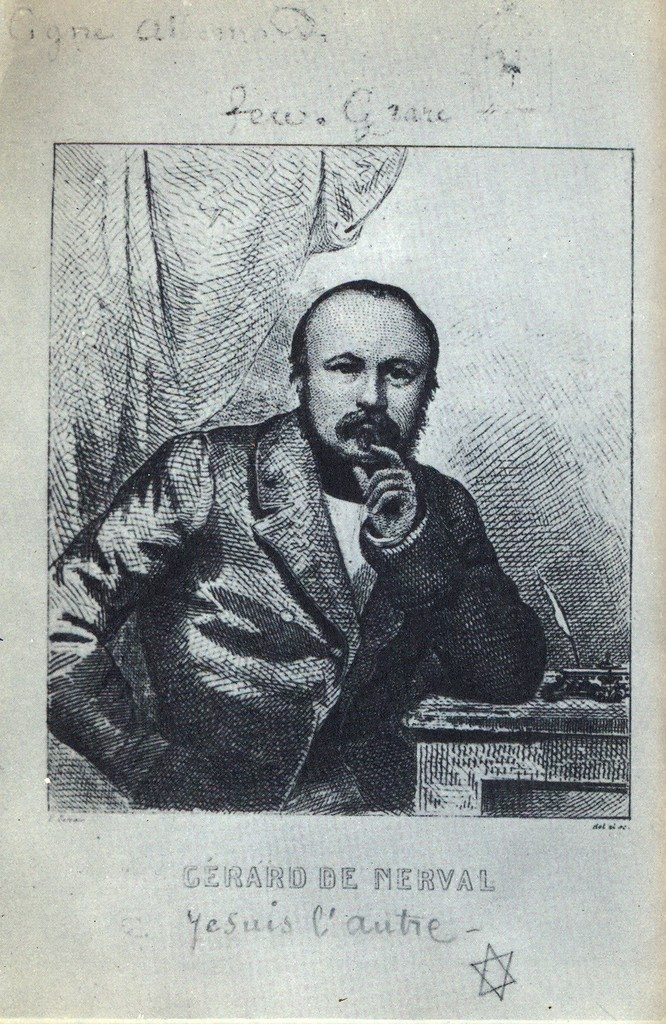 Gérard de Nerval - engraving